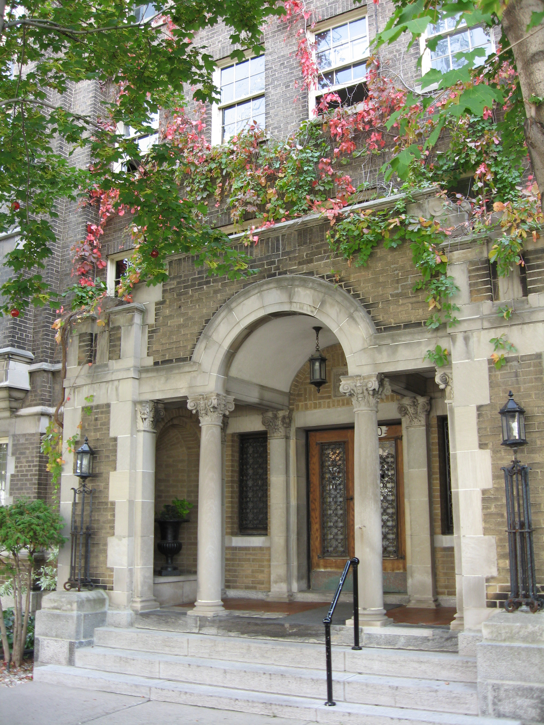 Dominican University College, a small university in Ottawa, Canada.